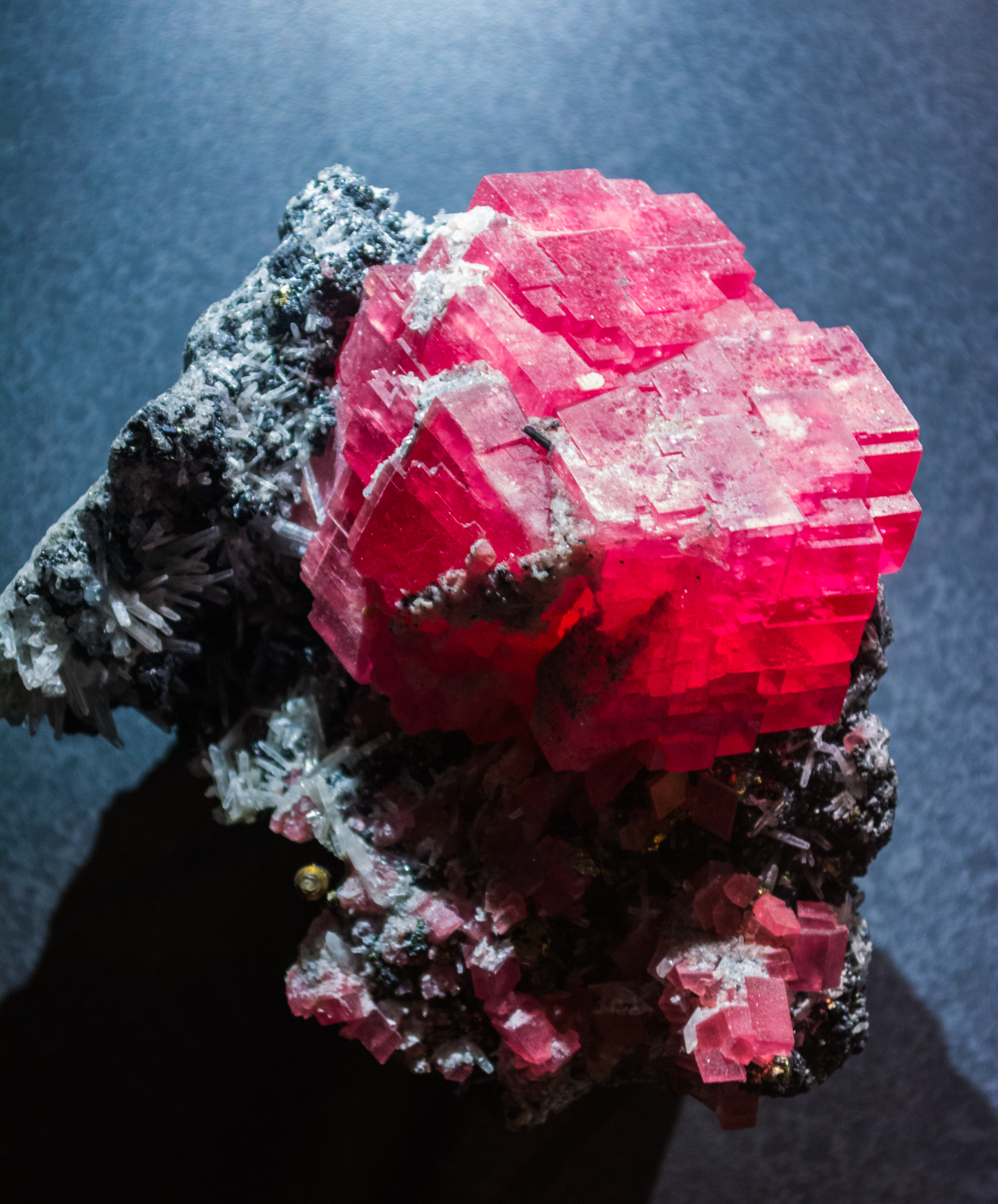 Rhodochrosite - Cleveland Museum of Natural History